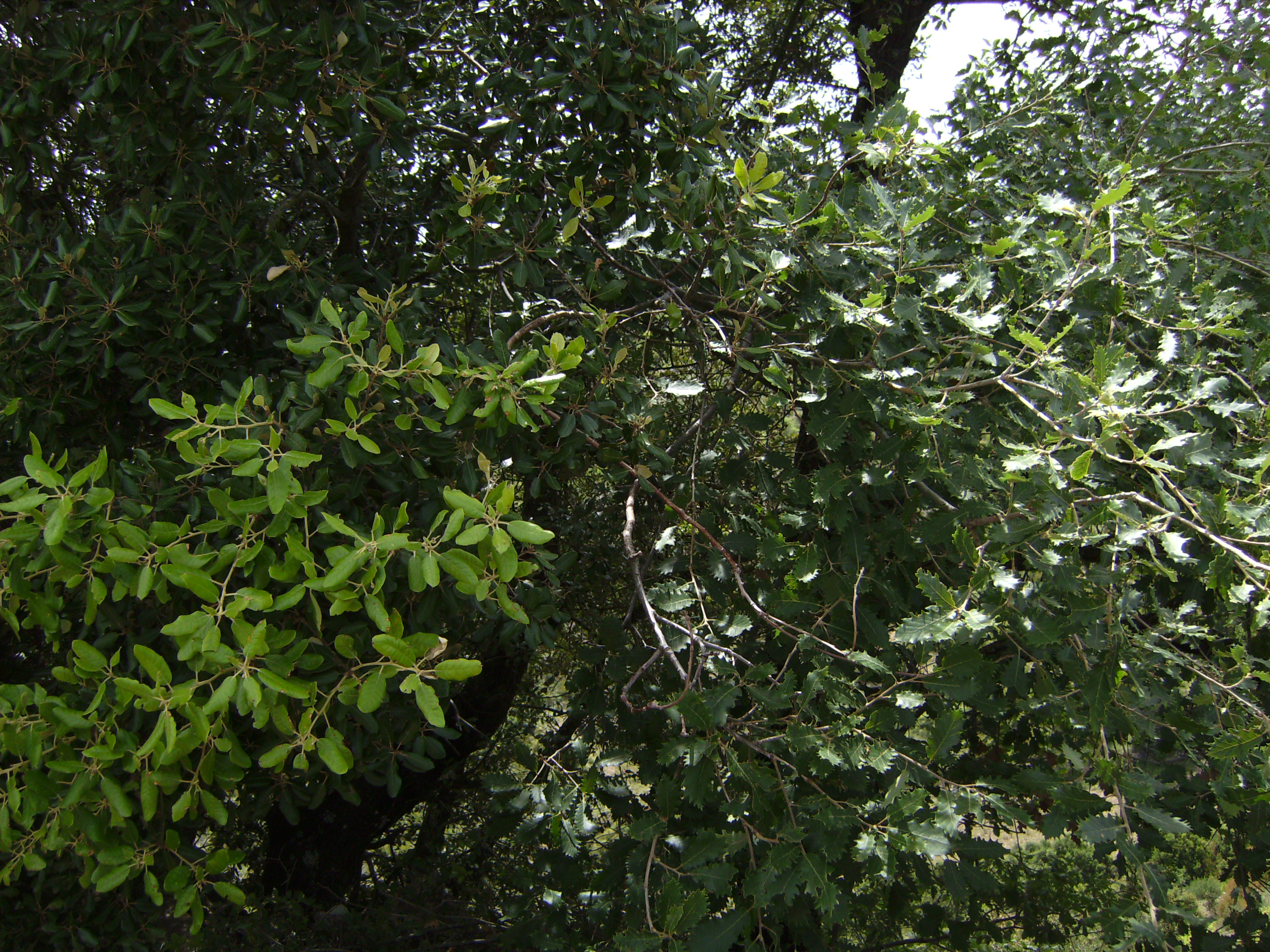 Quercus ilex (at left) and Quercus pubescens (at right) growing together in the wild, Castelltallat, catalonia